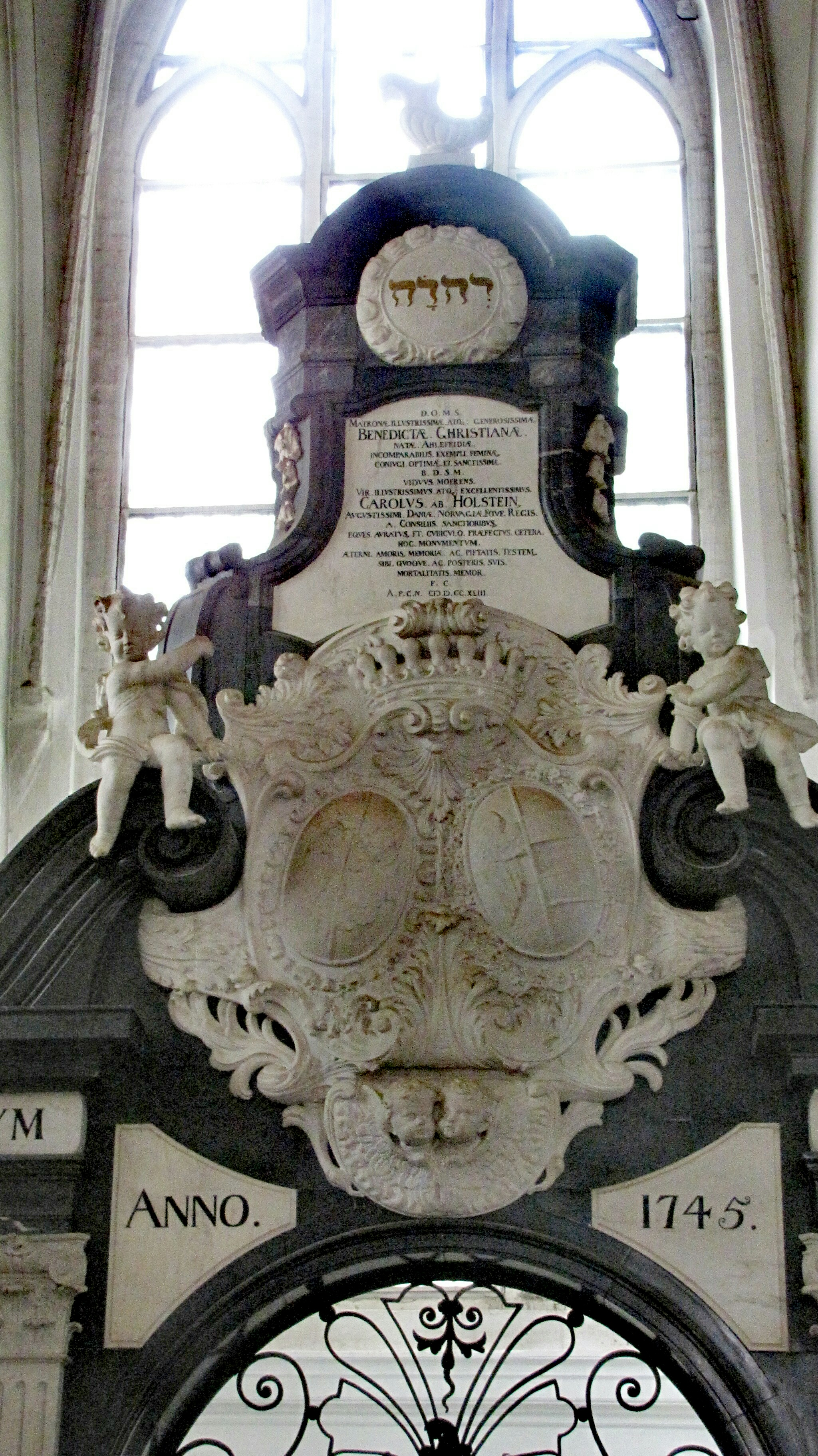 Screen of Holstein Chapel in St. Aegidien, Lübeck